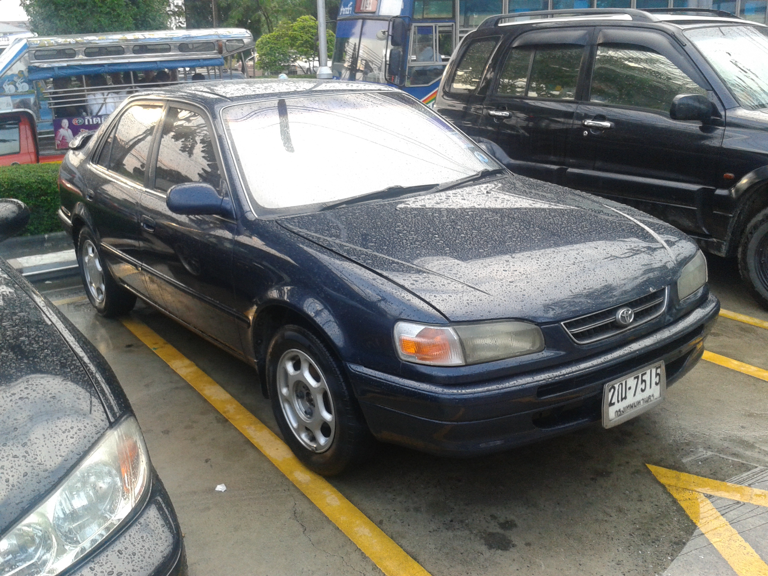 Toyota Corolla (E110) in Thailand.